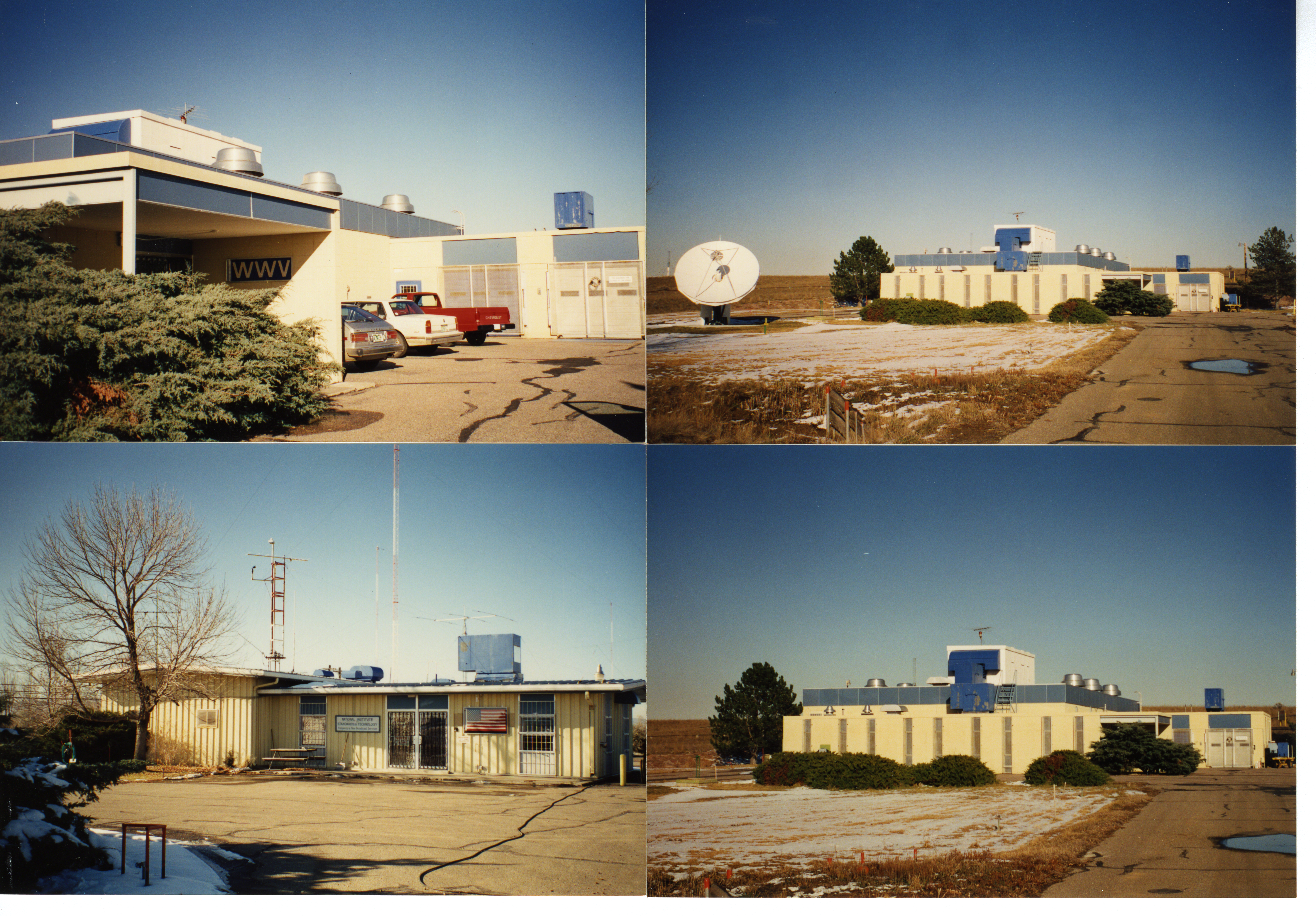 WWV radio station in Boulder, CO